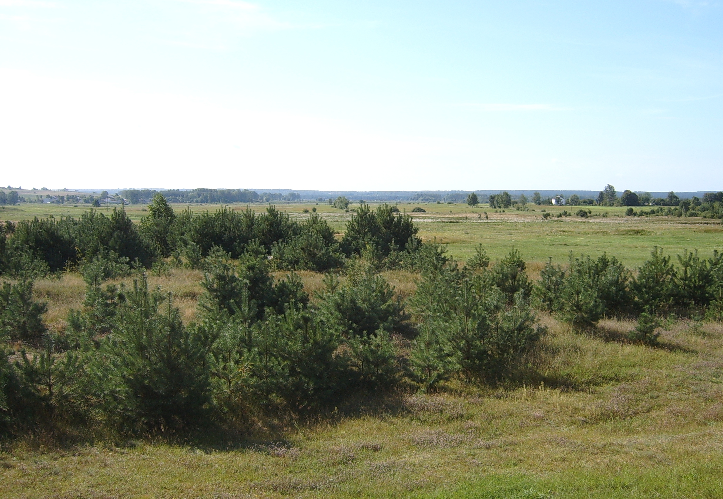 "Hubale" reserve near the Zamość, Poland